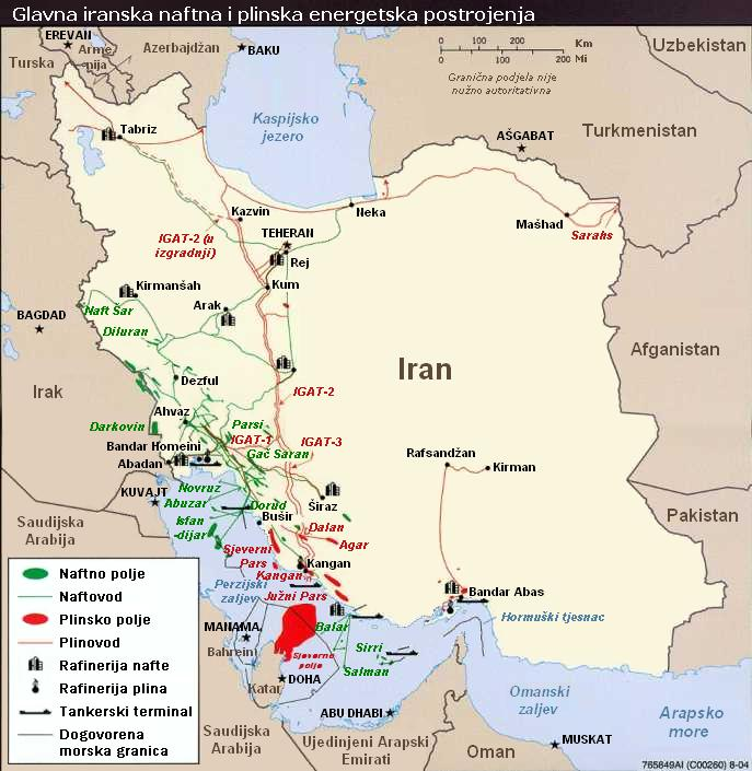 Energy Map of Iran